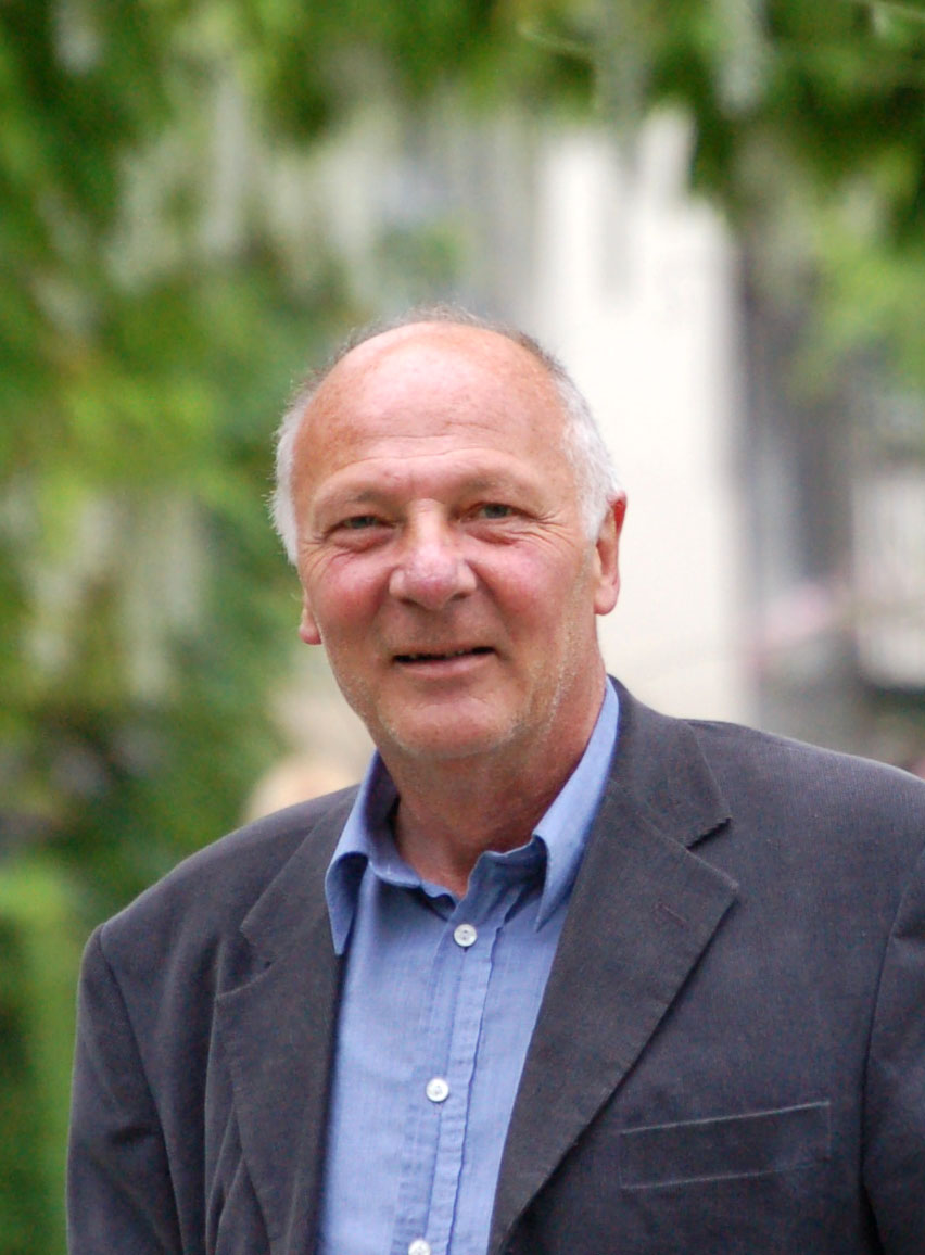 swiss writer Werner Wiedenmeier